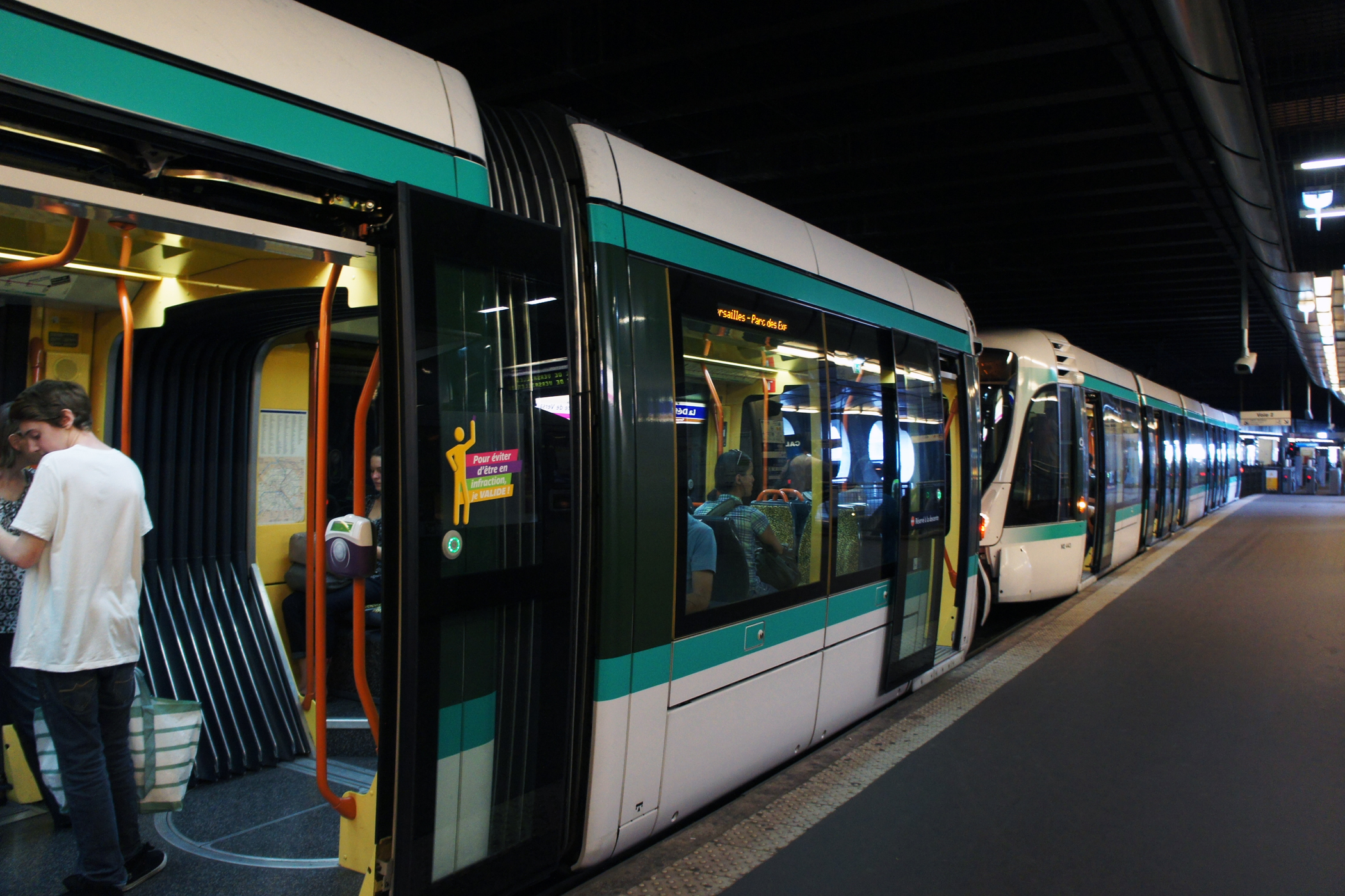 Paris (Île-de-France) tramway Line 2 at La Défense station